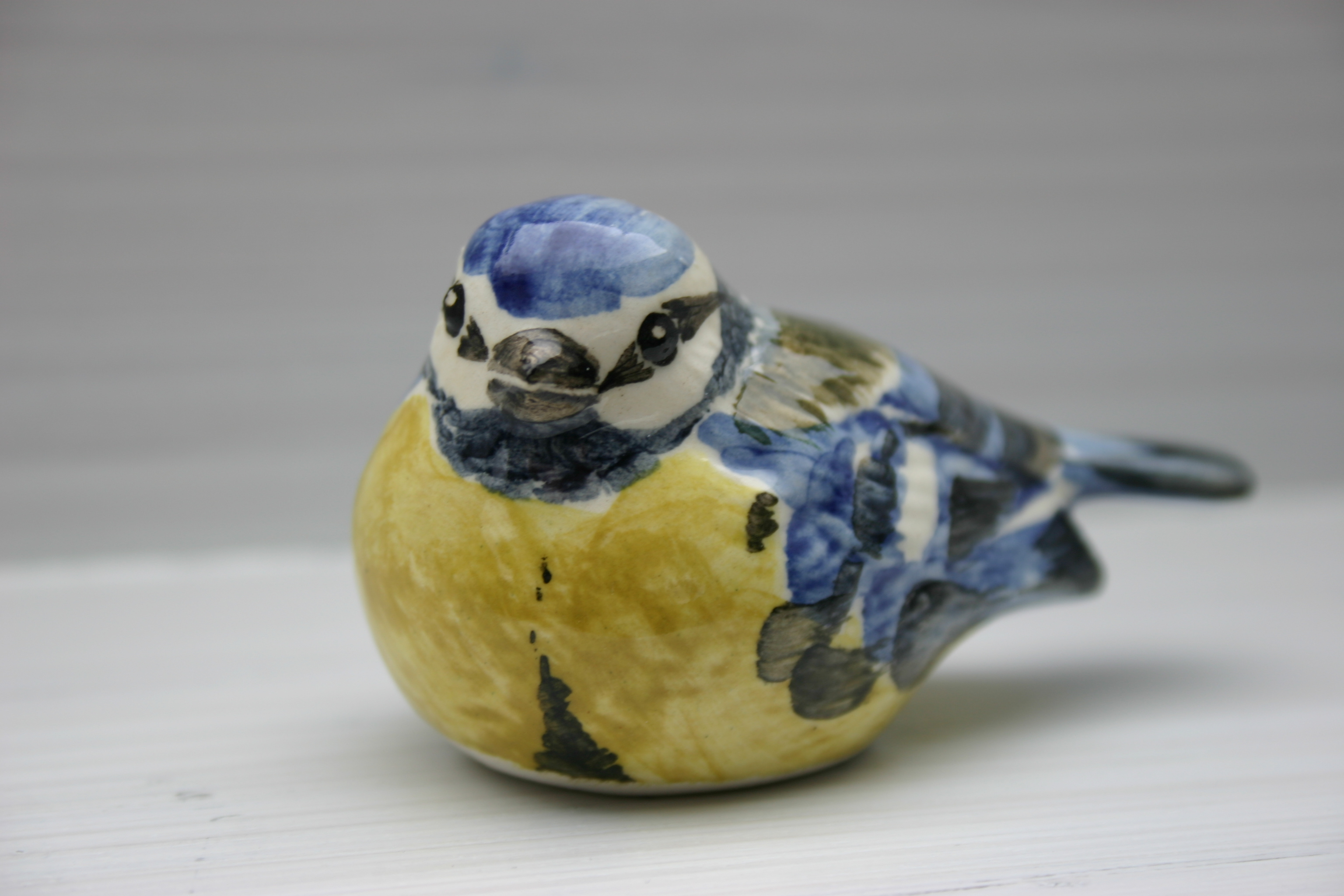 Figurine of Blue Tit